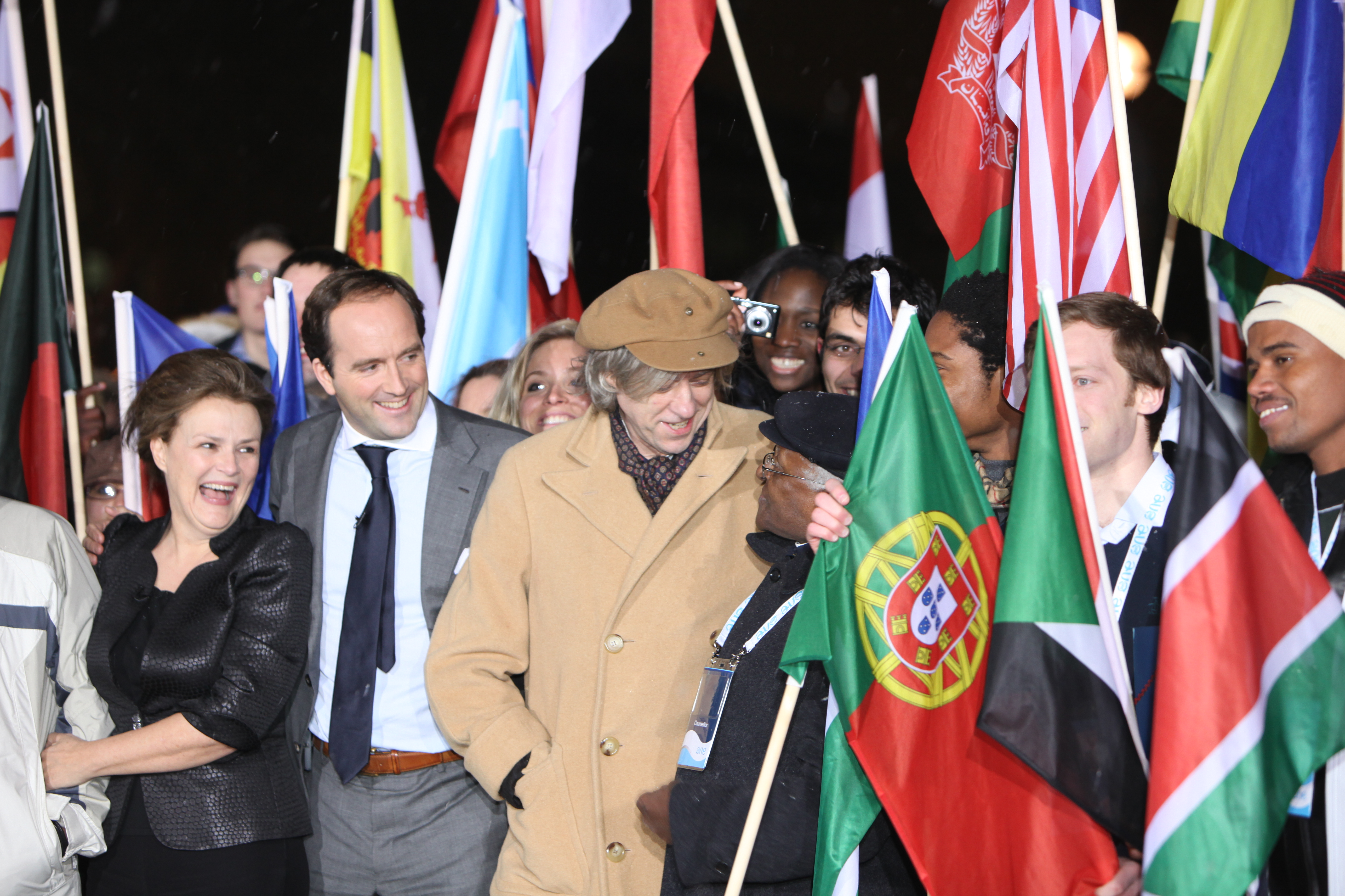 At One Young World 2010, London